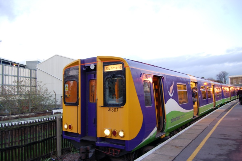 A class 313 service at North Woolwich station. From by adewale_oshineye.